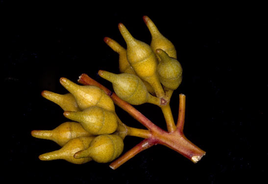 Flower buds of Eucalyptus socialis subsp. victoriensis north of Cook in the Great Victoria Desert, South Australia